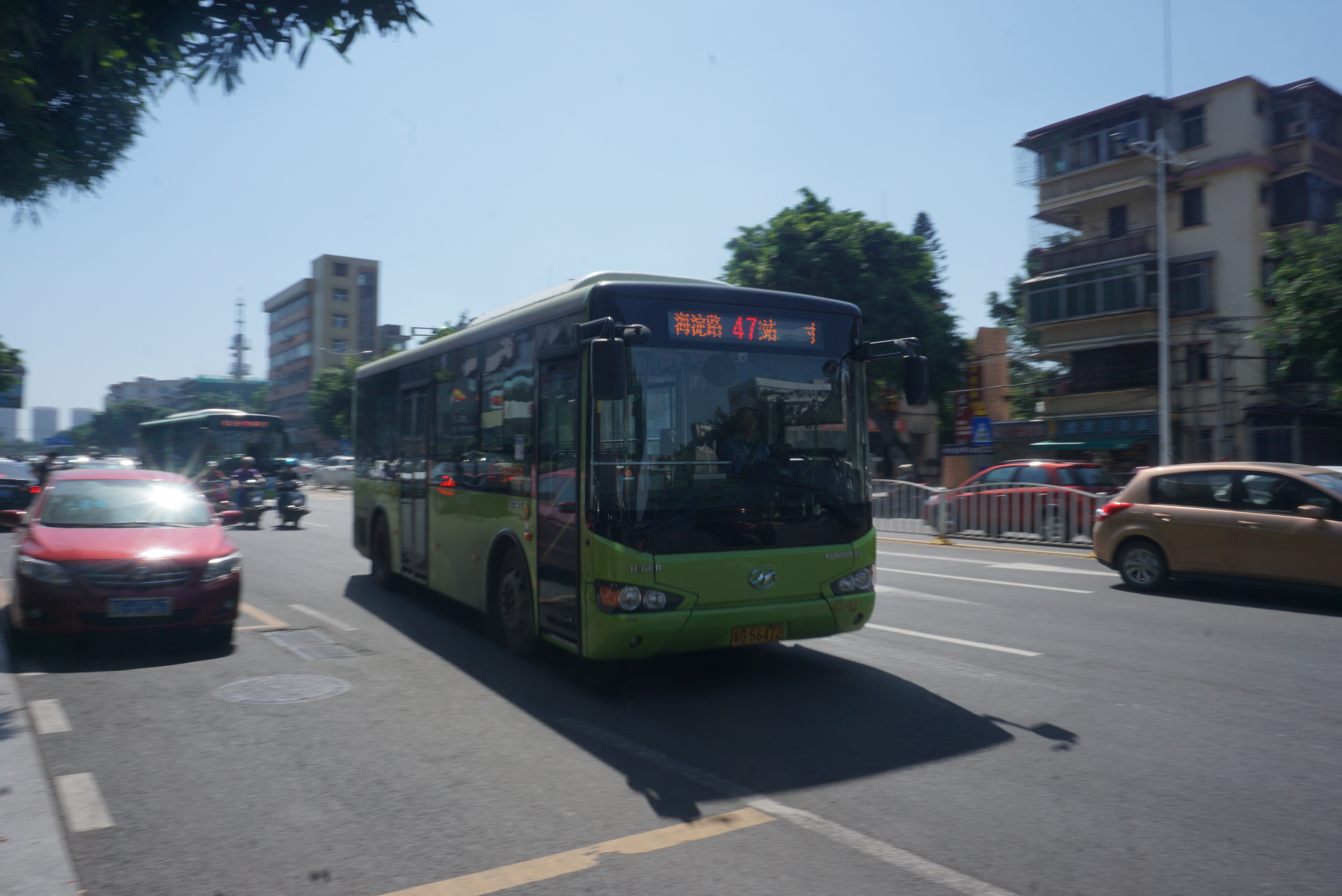 A Higer Bus running in Chikan District, Zhanjiang, Guangdong Province